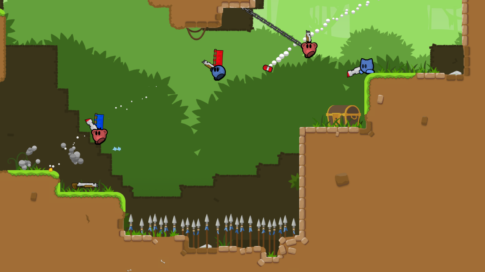 A screenshot of the free and open source game Teeworlds, featuring the map ctf6 which is in jungle theme.